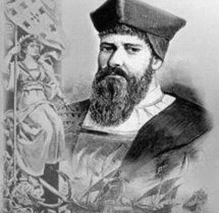 Joao da Nova, 1460 - 1509, portuguese explorer, NOTE: There is a similar - but not the same - image on the bookcover "João da Nova, un mariño galego ao servicio da Coroa de Portugal" by Santiago Prol, 2002, Deputación Provincial de Ourense